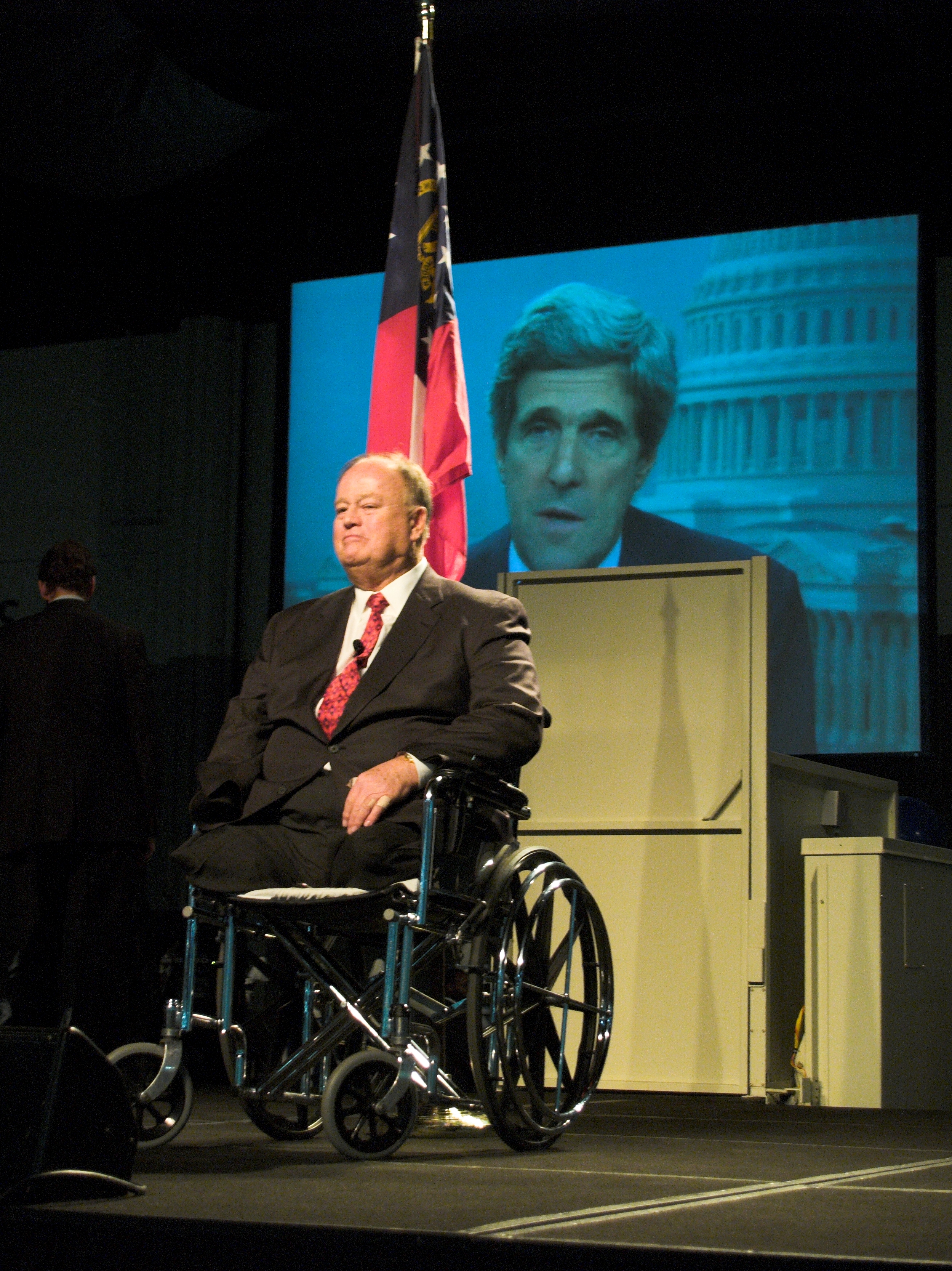 Being introduced by John Kerry via tape.